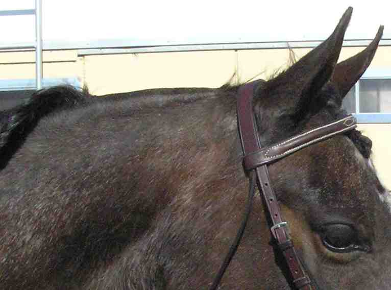 Close up of a clipped "bridle path" on a horse. The longer style is typical for Arabian horses, even though showing at the moment in hunter-type tack